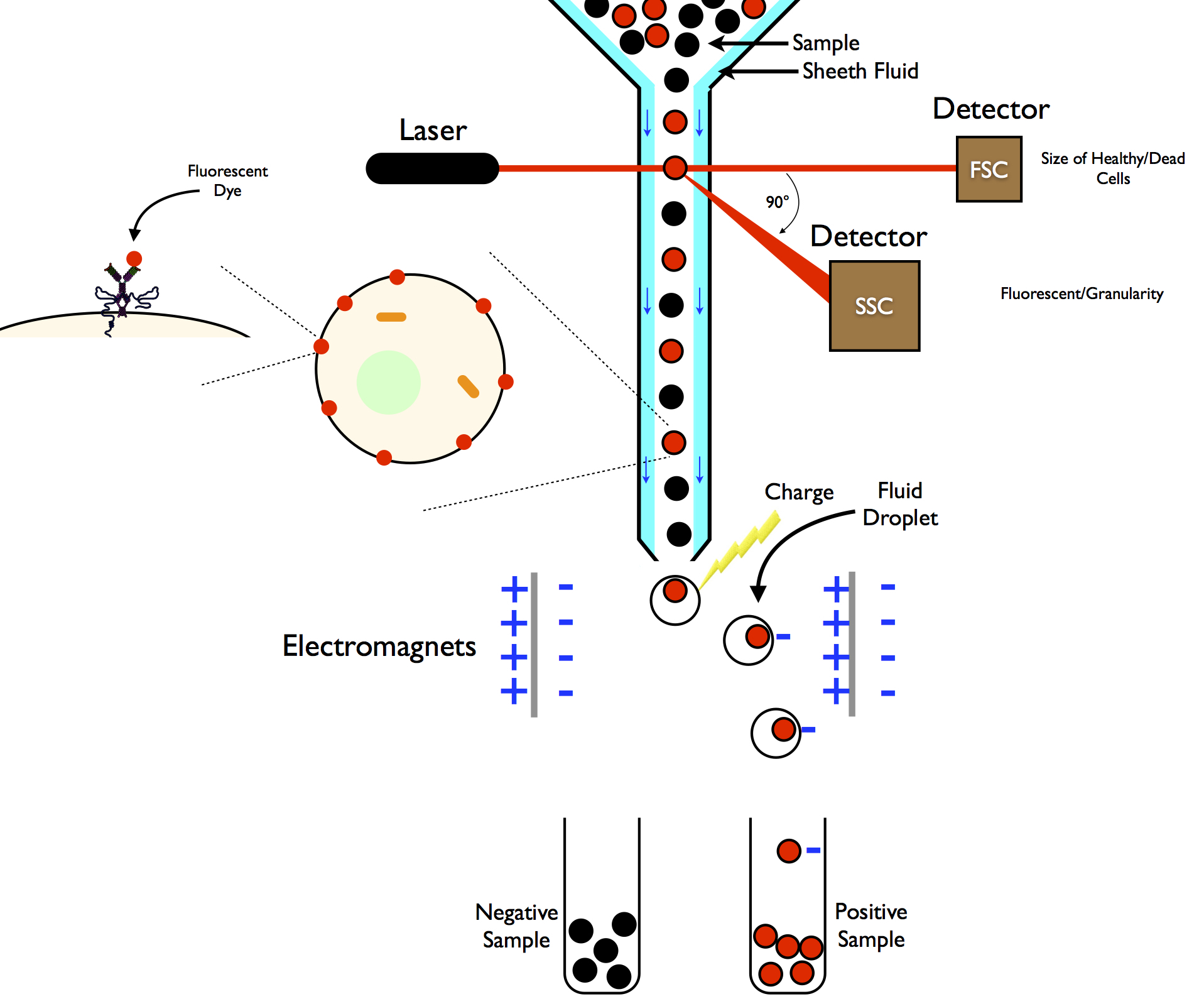 Updated image of FACS